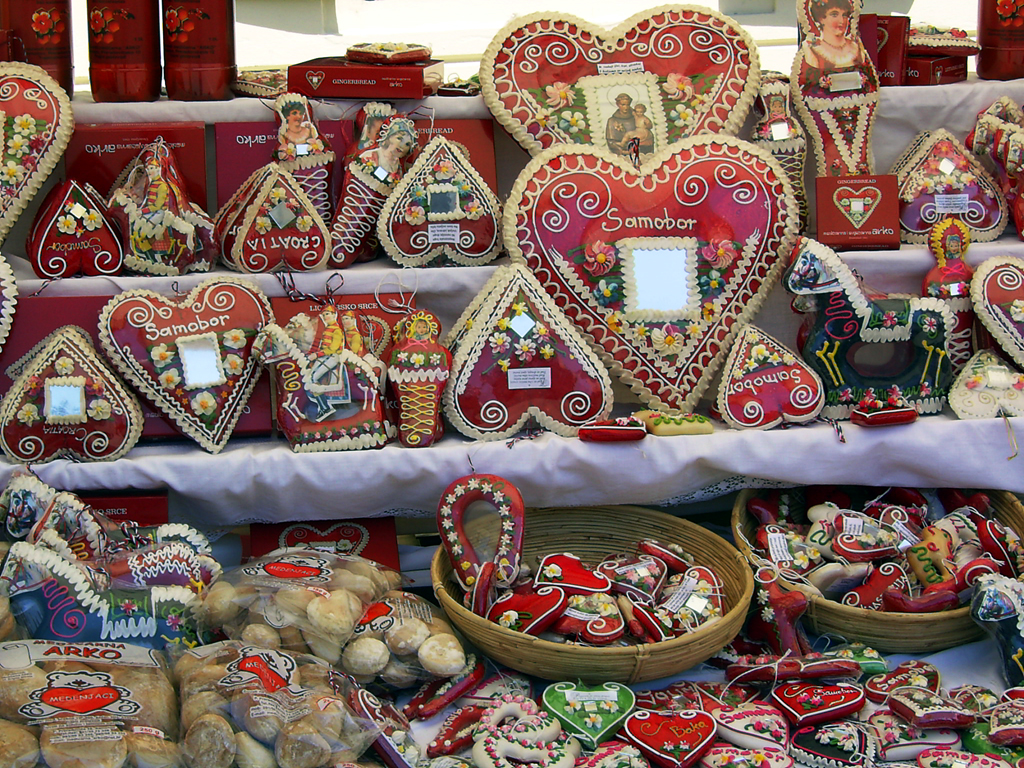 During the past times a number of handcrafts disappeared for good but still, a trace of it can be seen during the local fairs or carnival festivities.